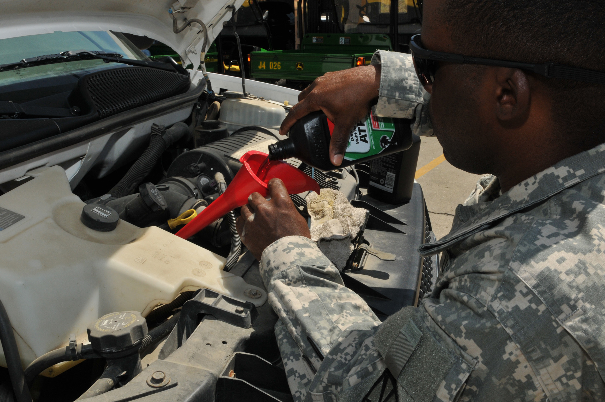 Army Sgt. Tashaia Bedminister, deployed to Joint Task Force Guantanamo with the Virgin Islands Army National Guard 786th Combat Sustainment Support Battalion, tops off a vehicle with transmission fluid, March 1, 2010. The Virgin Islands Army National Guard 786th Combat Sustainment Support Battalion is here on a year-long deployment as JTF Guantanamo's headquarters company.